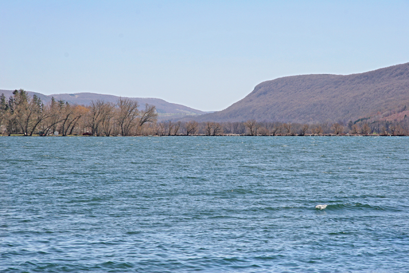 Paul Malo photograph